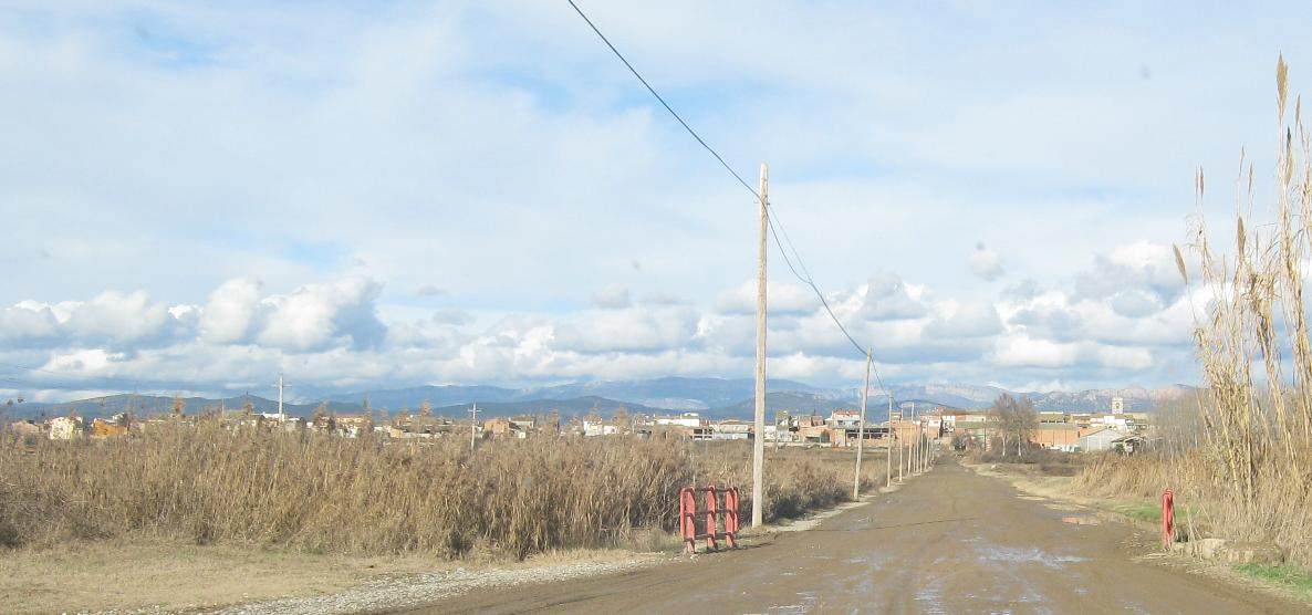 Vallfogona Balaguer view coming from south of the municipality through a country road